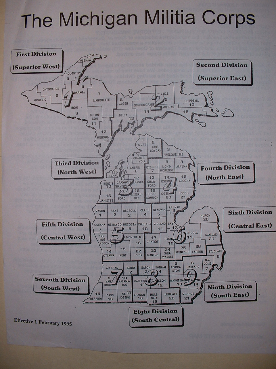 Map of divisions and brigades for the Michigan Militia Corps, Wolverines